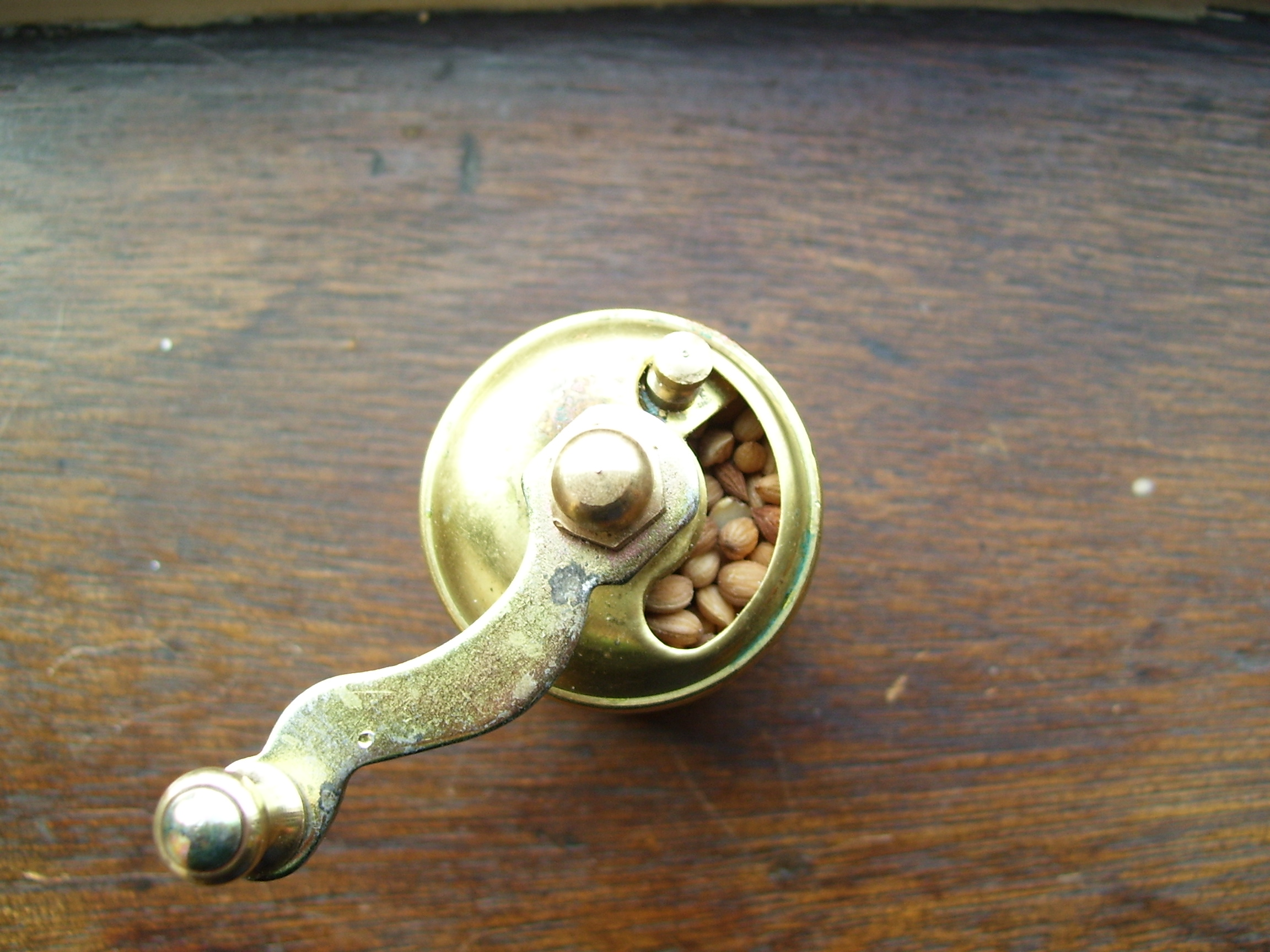 Here is Pinar's grinder full of Mahlep/Mahlab/Mahlepi. Per Wikipedia: "An aromatic spice made from the seeds of the St Lucie Cherry (Prunus mahaleb)."Add a captionHere is Pinar's grinder full of Mahlep/Mahlab/Mahlepi. Per Wikipedia: "An aromatic spice made from the seeds of the St Lucie Cherry (Prunus mahaleb)."